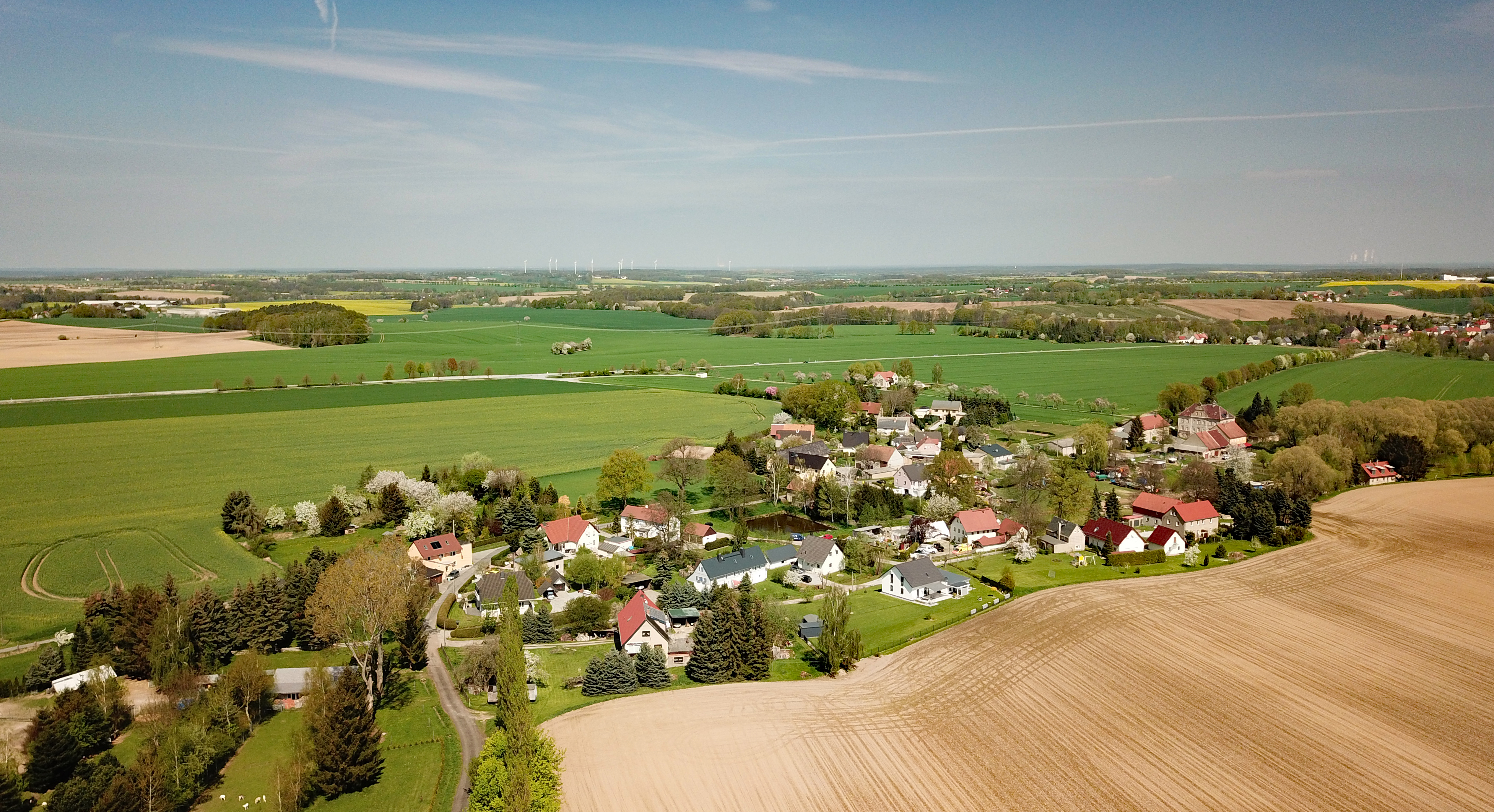 Semmichau (Göda, Saxony, Germany) Hornjoserbsce: Powětrowy wobraz Zemichowa